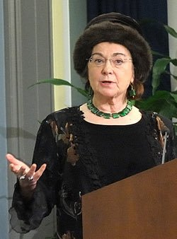 Photograph of public health historian Dr Elizabeth Fee, giving a talk during her tenure as the Chief Historian of the National Library of Medicine.